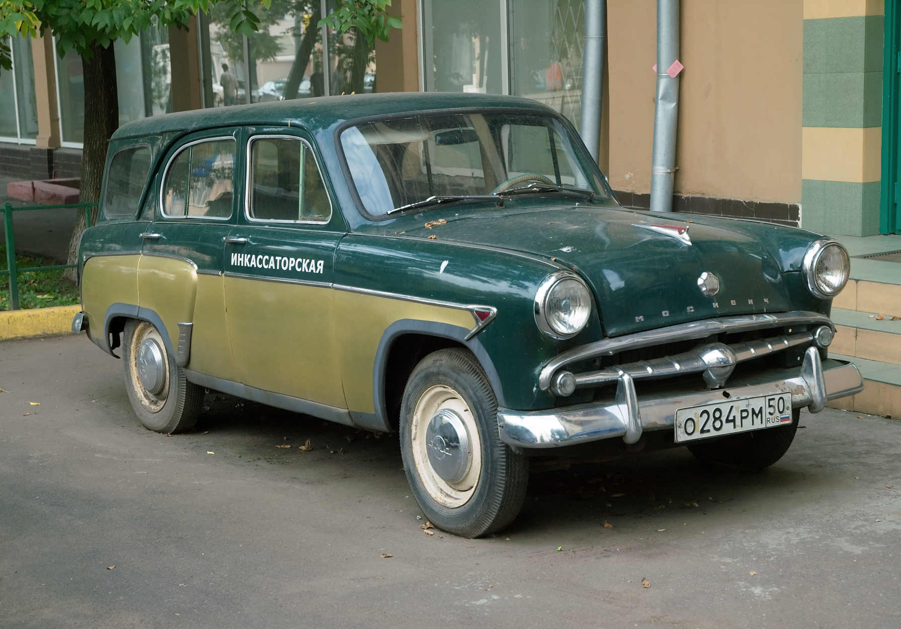 Moskvich-407 estate (exact model no. Moskvich-423N) as "armored truck" paint, Moscow. It's a bank teaser, not a real armored truck